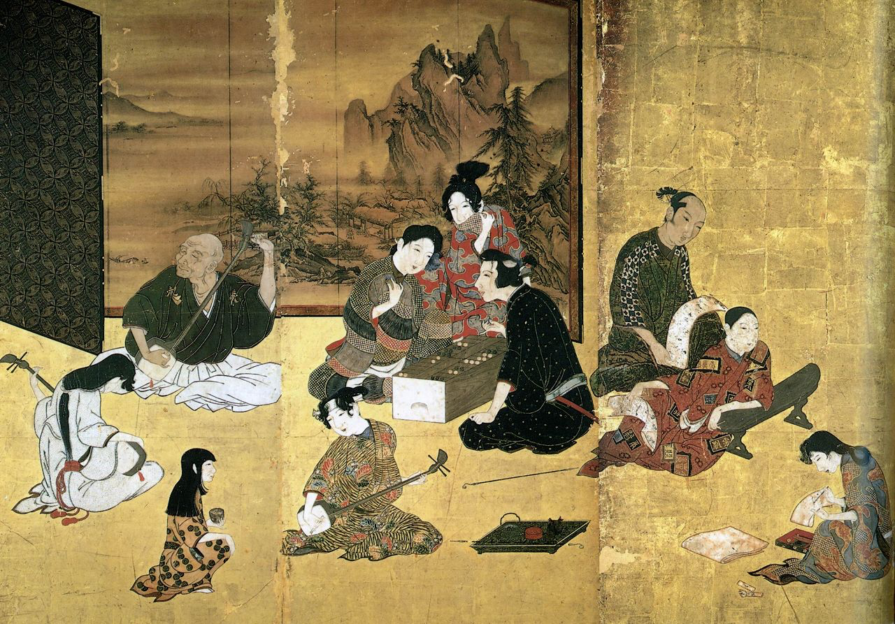 Genre scene (紙本金地著色風俗図, shihonkinjichoshoku fūzokuzu) or Hikone Screen (彦根屏風, hikone byōbu). Six-section folding screen (byōbu), 94.5 cm x 278.8 cm. Color on paper with gold leaf background. Formerly held by the Ii family. Located at the Hikone Castle Museum, Hikone, Shiga, Japan. The screen has been designated as National Treasure of Japan in the category paintings.